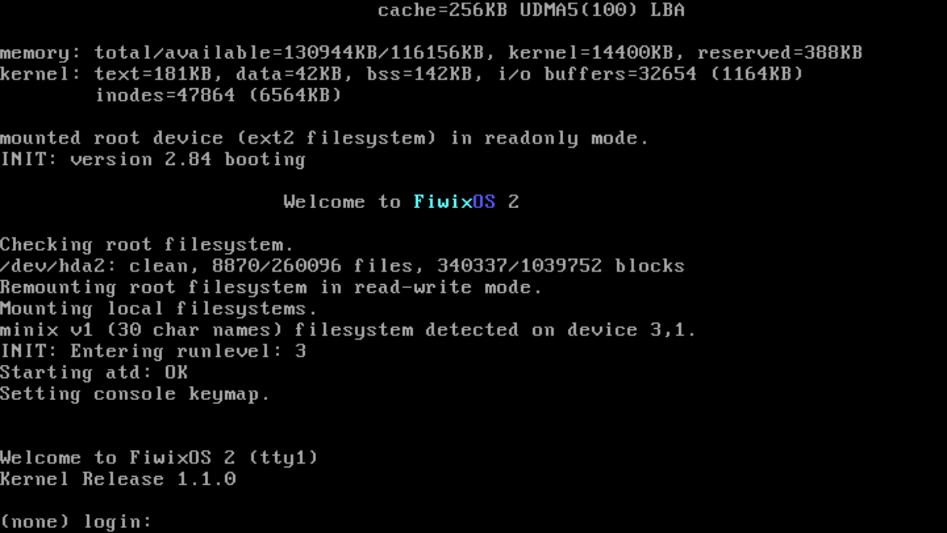 FiwixOS 2 with Fiwix kernel version 1.1.0 on i386 architecture